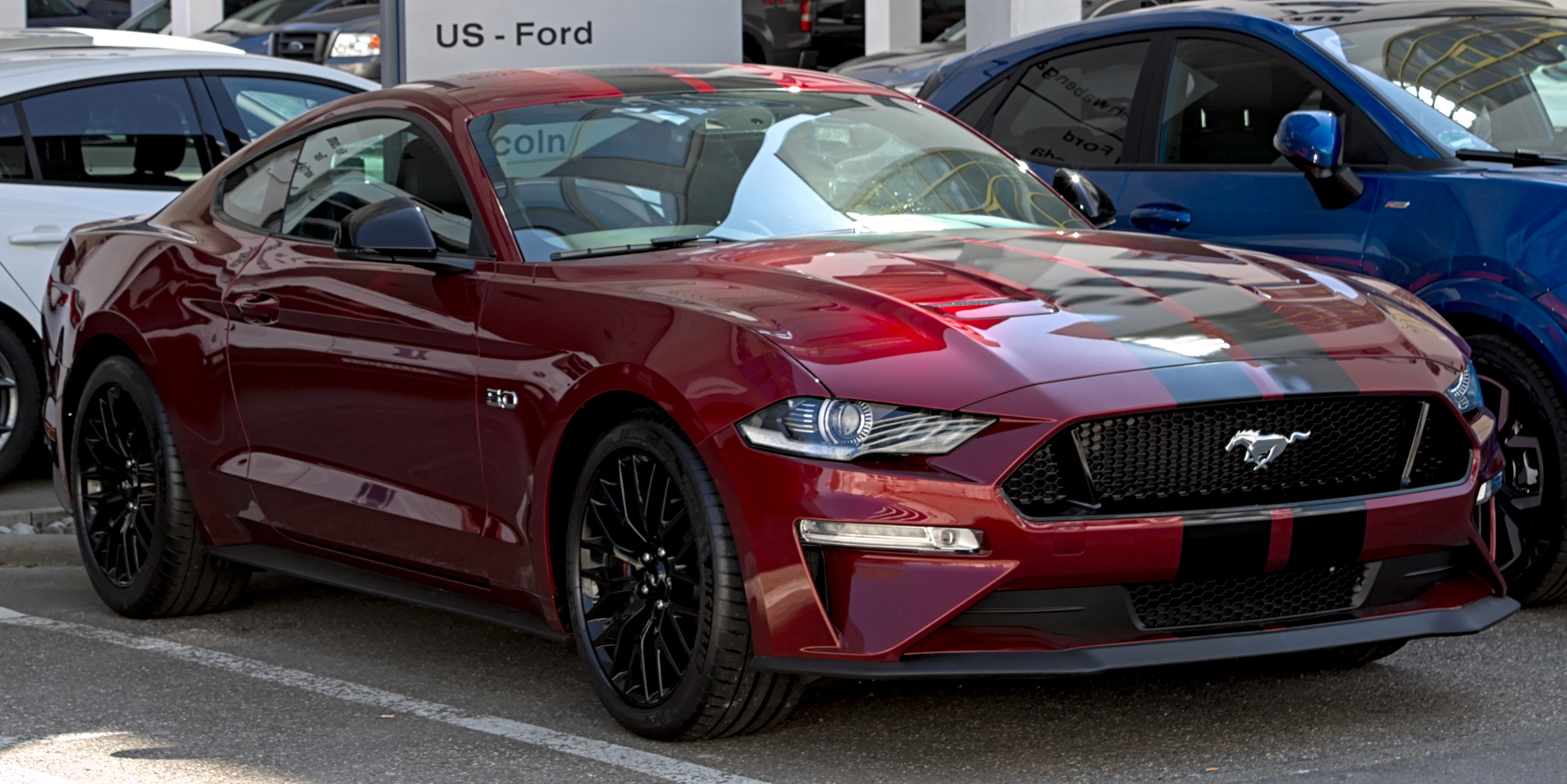 Ford_Mustang_VI in Stuttgart-Vaihingen